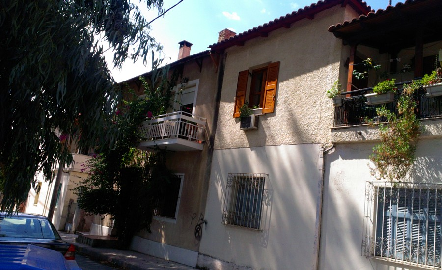 filadelfeia